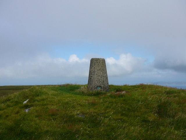 Trig point & Carn an Truagh, Knocklayd Summit